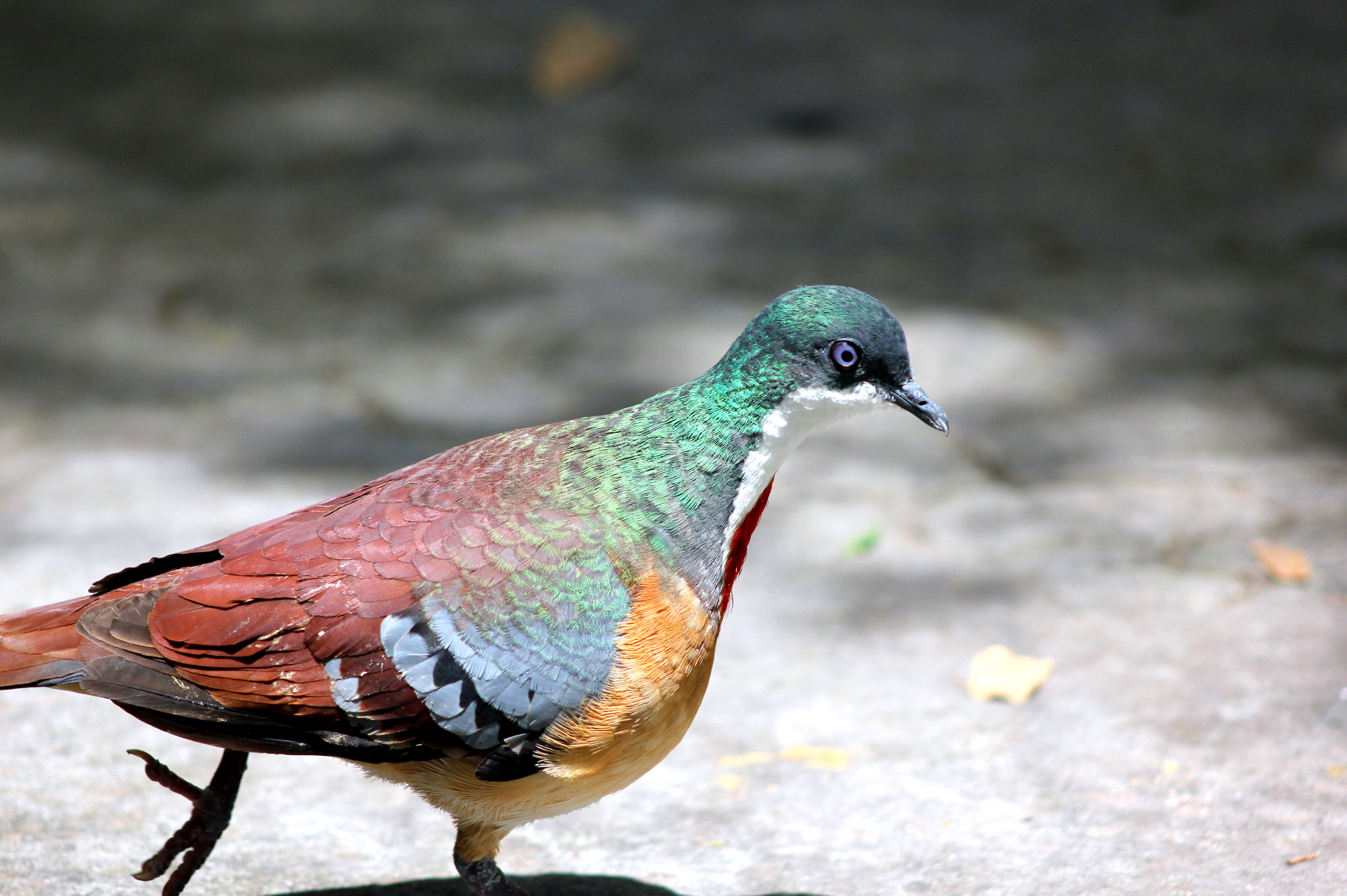 FIELD MARKS-Description: The name 'bleeding-heart' comes from the patch of red on the breast of these birds. Otherwise they are grey above and paler buff below. Bleeding-heart doves live only in the Philippines.